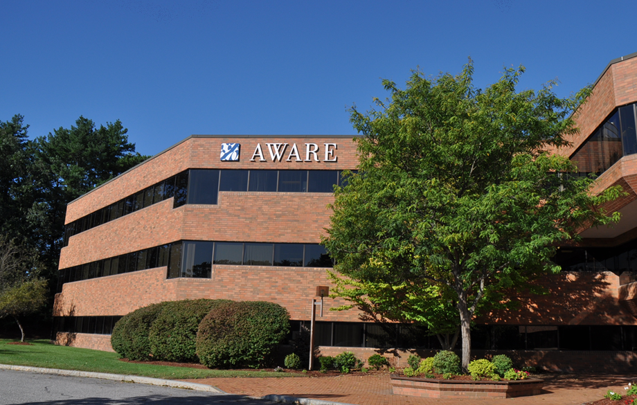 Photo of Aware building